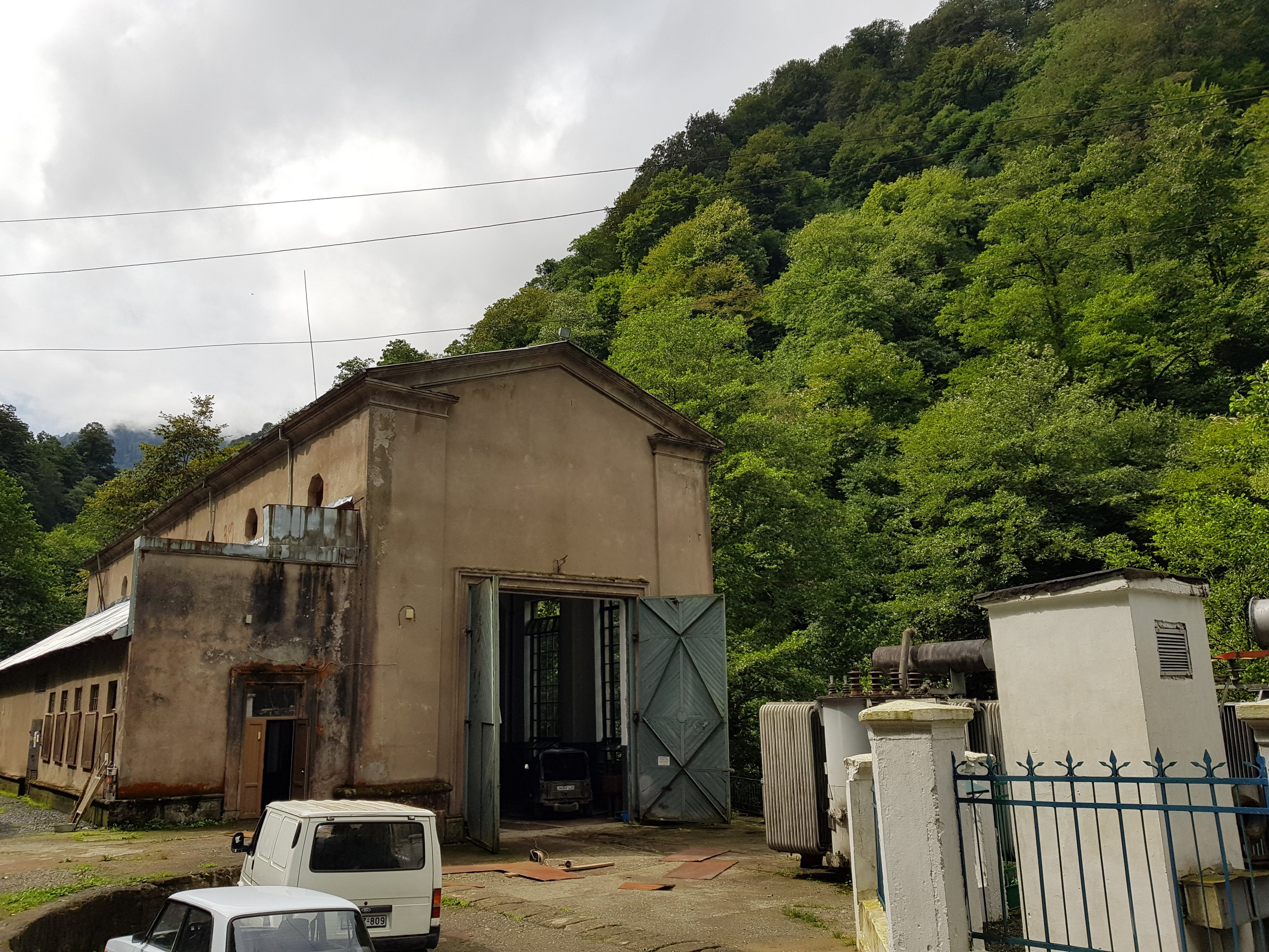 Bzhuha HPP